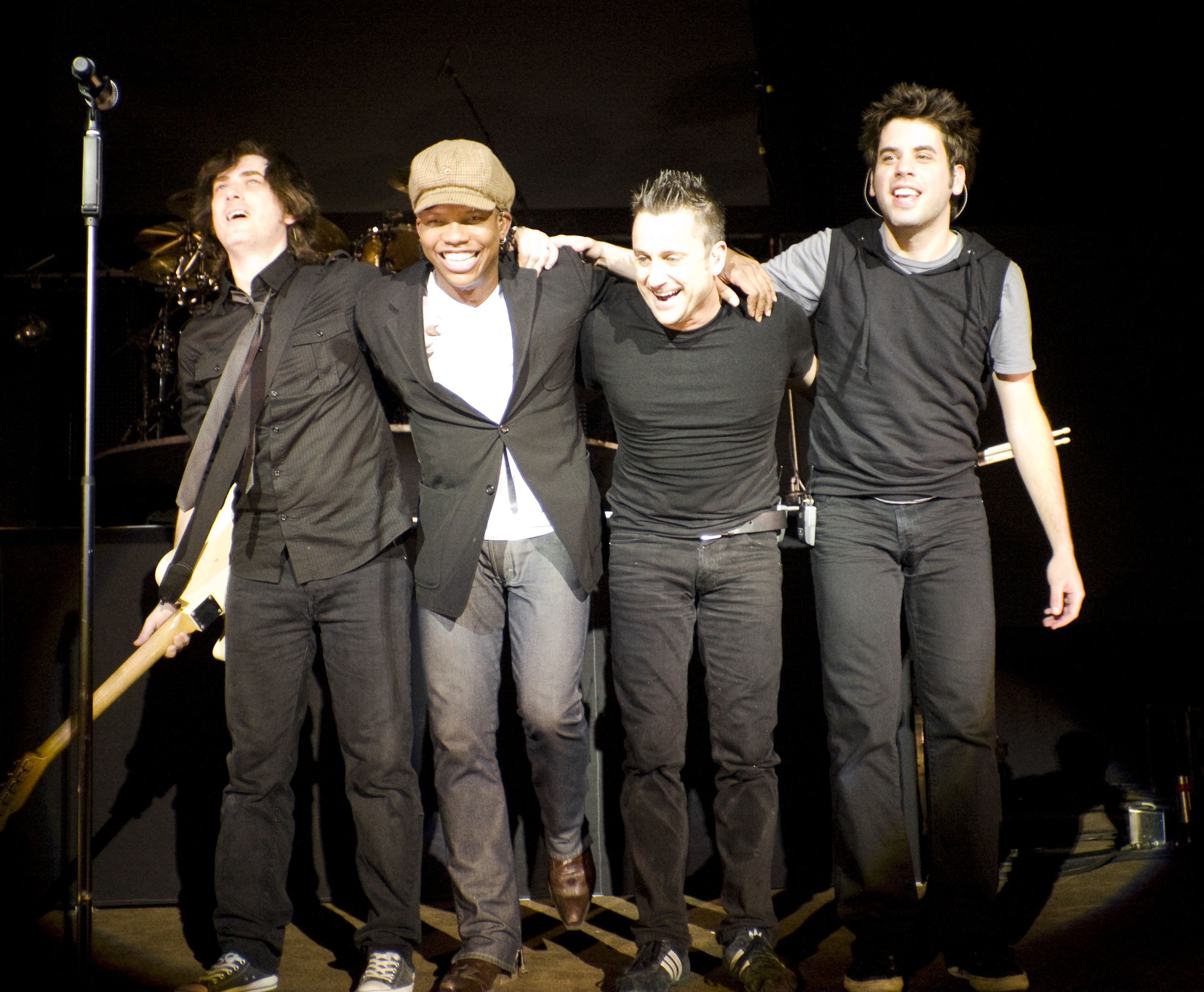 Contemporary Christian band Newsboys in concert, March 2009. From left to right: Jody Davis, Michael Tait, Duncan Phillips, Jeff Frankenstein.